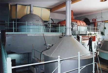 Brewery Zwierzyniec - brewhouse, 2004. Photo uploaded with permission of Piotr Pupysz.